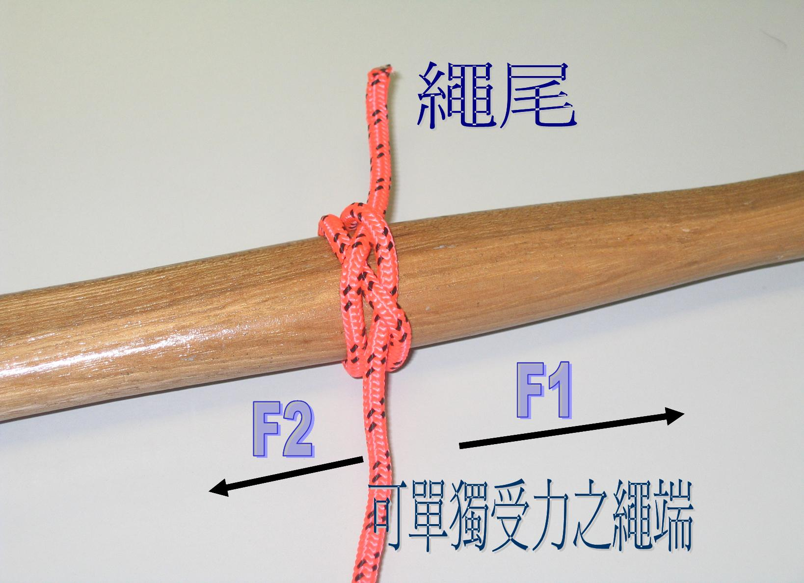 Explaination of the knoting method.